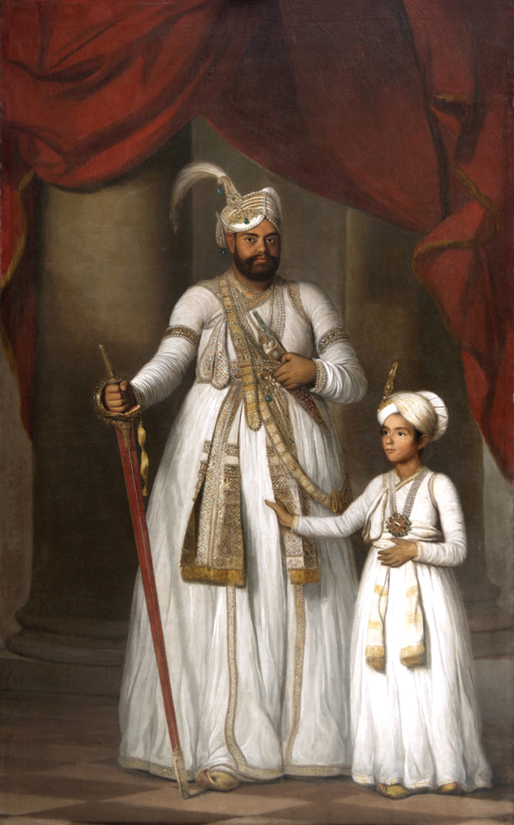 Prince Azim-ud-Daula (1775–1819), Nawab of the Carnatic and His Son Azam Jah (1797 – 12 November 1825)